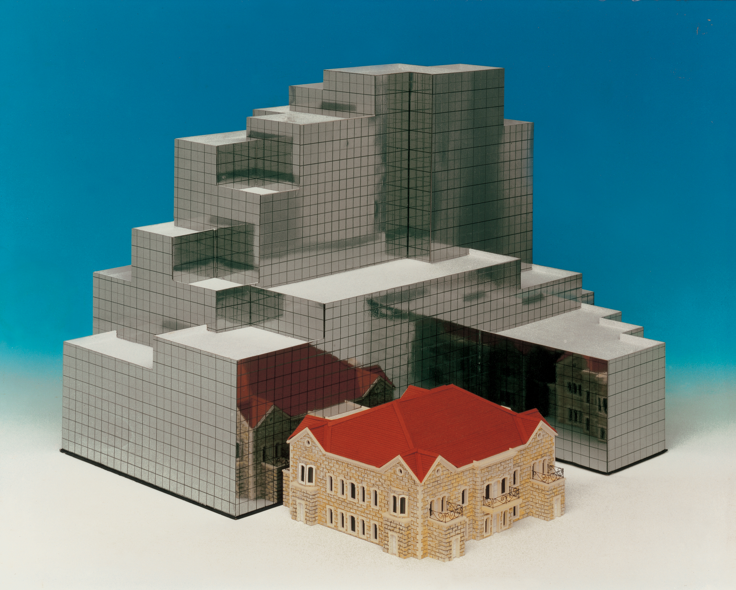 Model of the Villa Khury/Prophets Tower (Haifa) that was the basis of the installation project developed in the Prophets Tower mall in 1995.